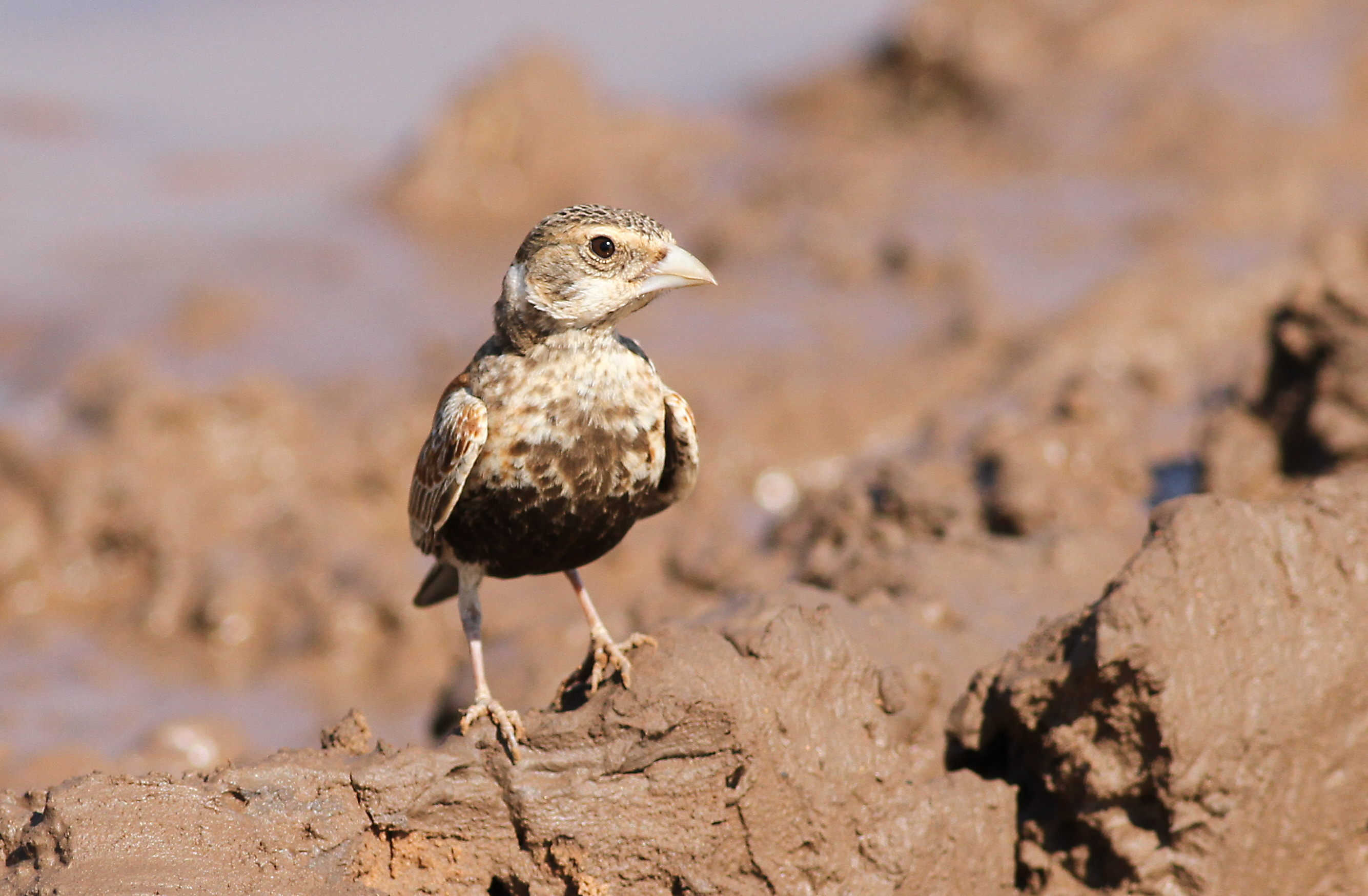 Chestnut-backed sparrow-lark,Eremopterix leucotis at Mapungubwe National Park, Limpopo, South Africa